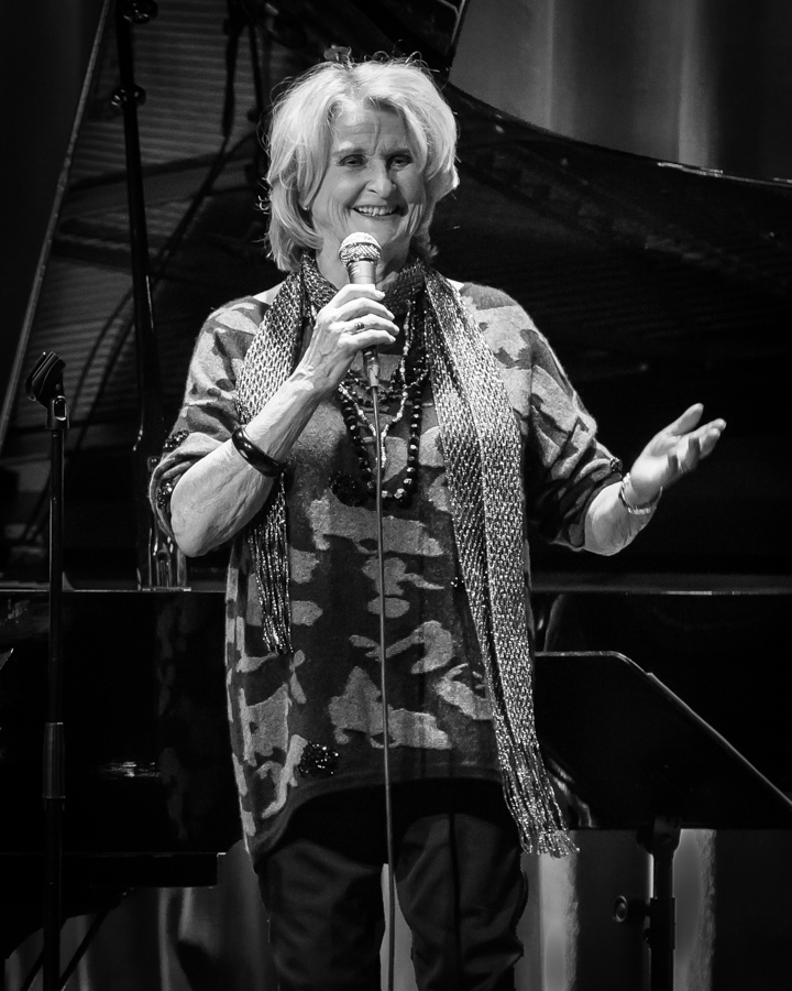 Karin Krog in concert at Cosmopolite in 2015.